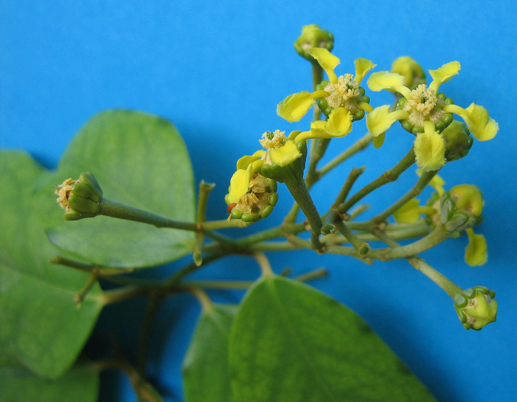 Close-up of flowers of Heteroptery chrysophylla